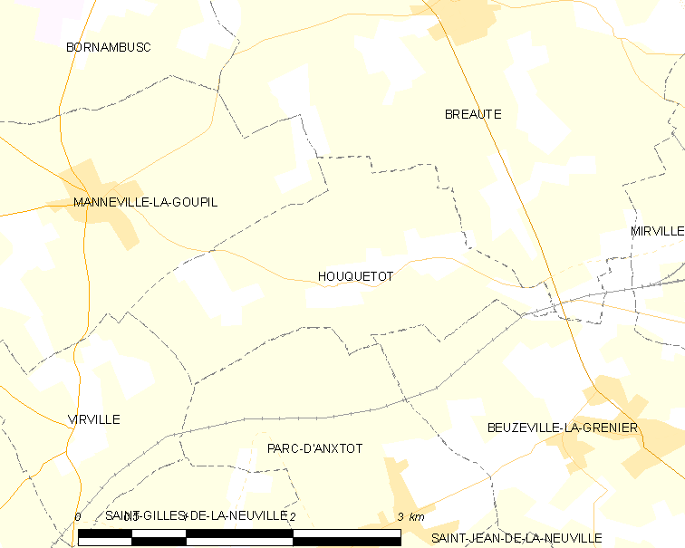 Map of French municipality Houquetot